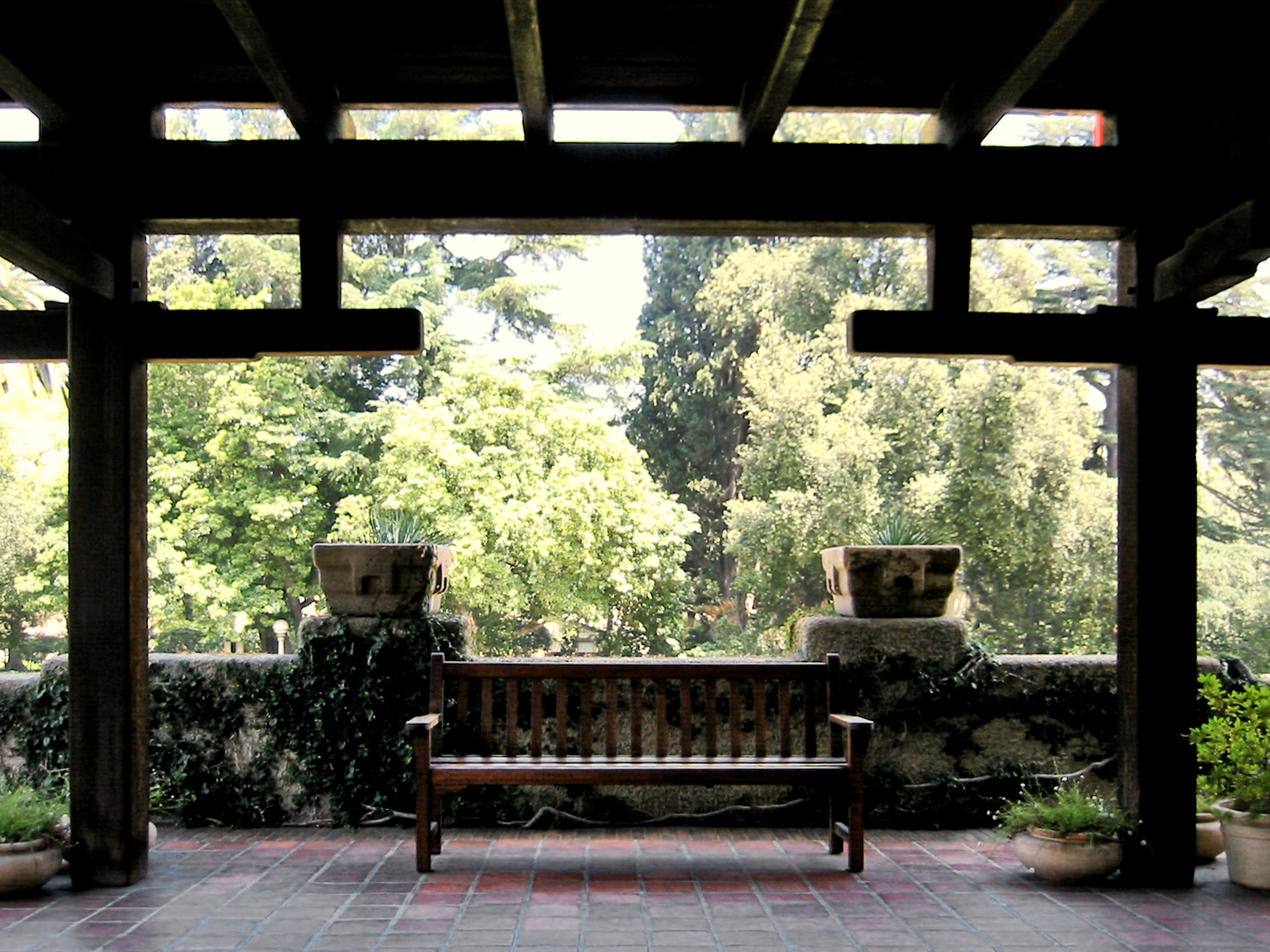 This is view of the planters and beaming of the front porch of the Gamble House in Pasadena, CA